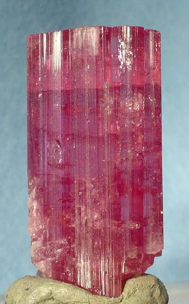 Tourmaline (Var.: Rubellite) Locality: Stewart Mine (MS 6162; Stewart Lithia), Tourmaline Queen Mountain (Pala; Queen), Pala District, San Diego County, California, USA (Locality at ) Size: 4.1 x 2.2 x 1.6 cm. A beautiful, gemmy and lustrous, deep pink tourmaline from the famous, but lesser-known Stewart Mine of California. This is a beautiful, intensely color-saturated pink tourmaline, amongst the finest in San Diego County. The lustrous, pinacoid termination has an interesting ripple look. 20 grams.